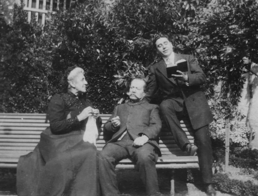 Léonce Perret's photo.